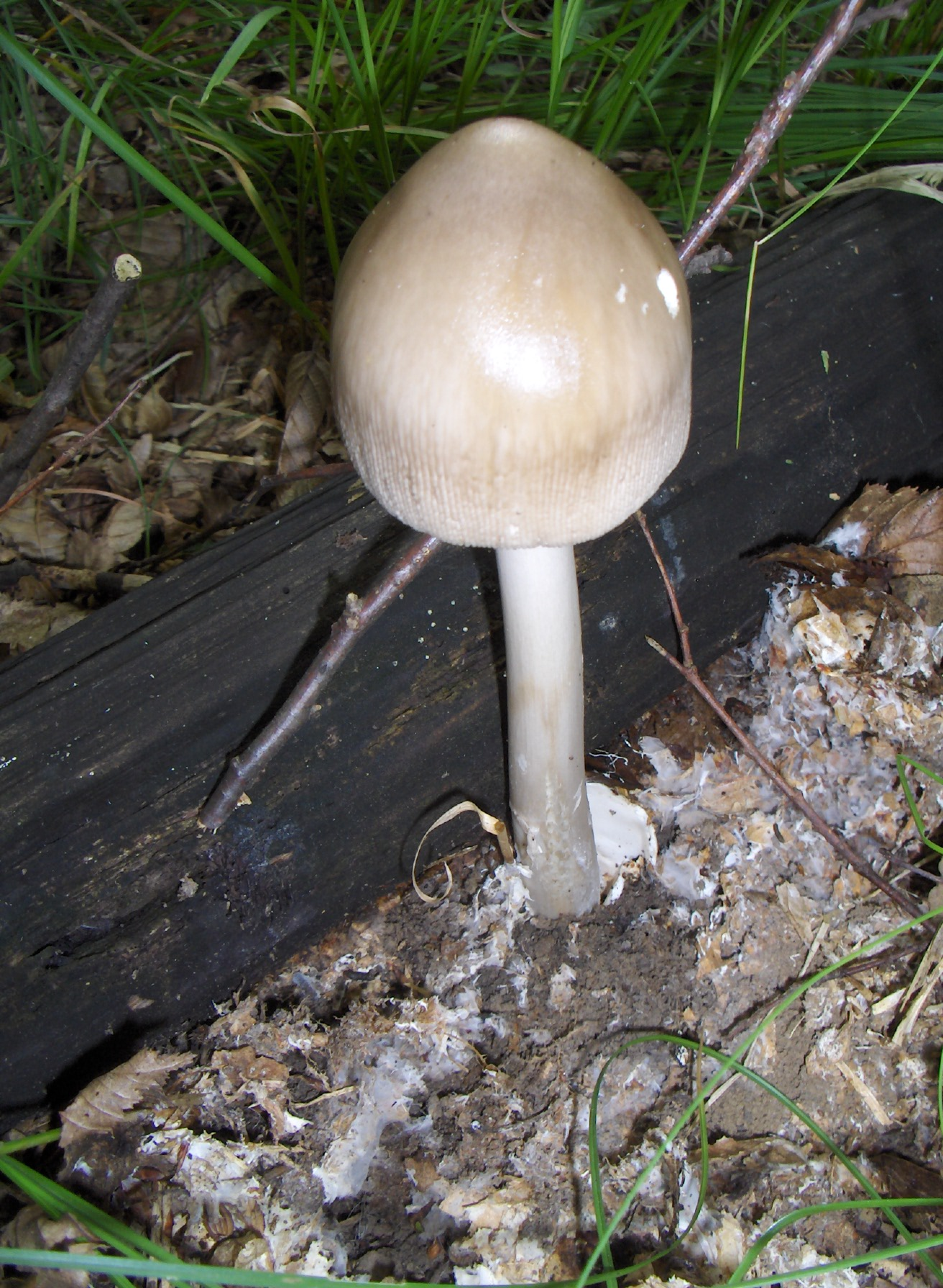 Amanita vaginata (Bull. : Fr.) Lam. Location: Lipik, Croatia For more information about this, see the observation page at Mushroom Observer.